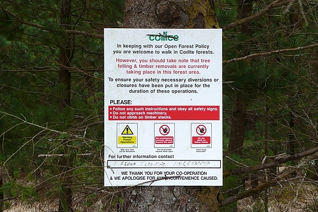 Suí Con (Seecon) forest Suí Con (Seecon) is a large forestry area planted in the 1960s and 1970s on blanket bog around Loch Shuí Con (Lough Seecon) and the headwaters of Abhainn Bhoth Loischte (Owenboliskey River). It is managed by Coillte and has a network of forest tracks, which are usually accessible to the public. Here is a list of dos and don'ts.